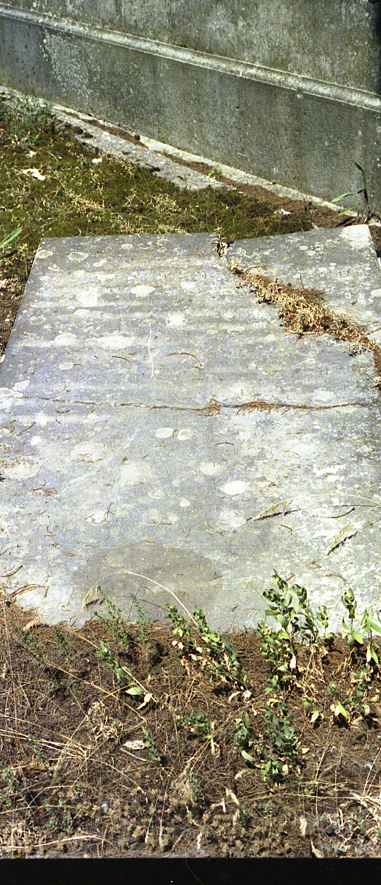 Karl Heinrich Ulrichs's (the first homosexual activist ever) grave in L'Aquila, Italy, besides the Persichetti family chapel, before its recent restoration.